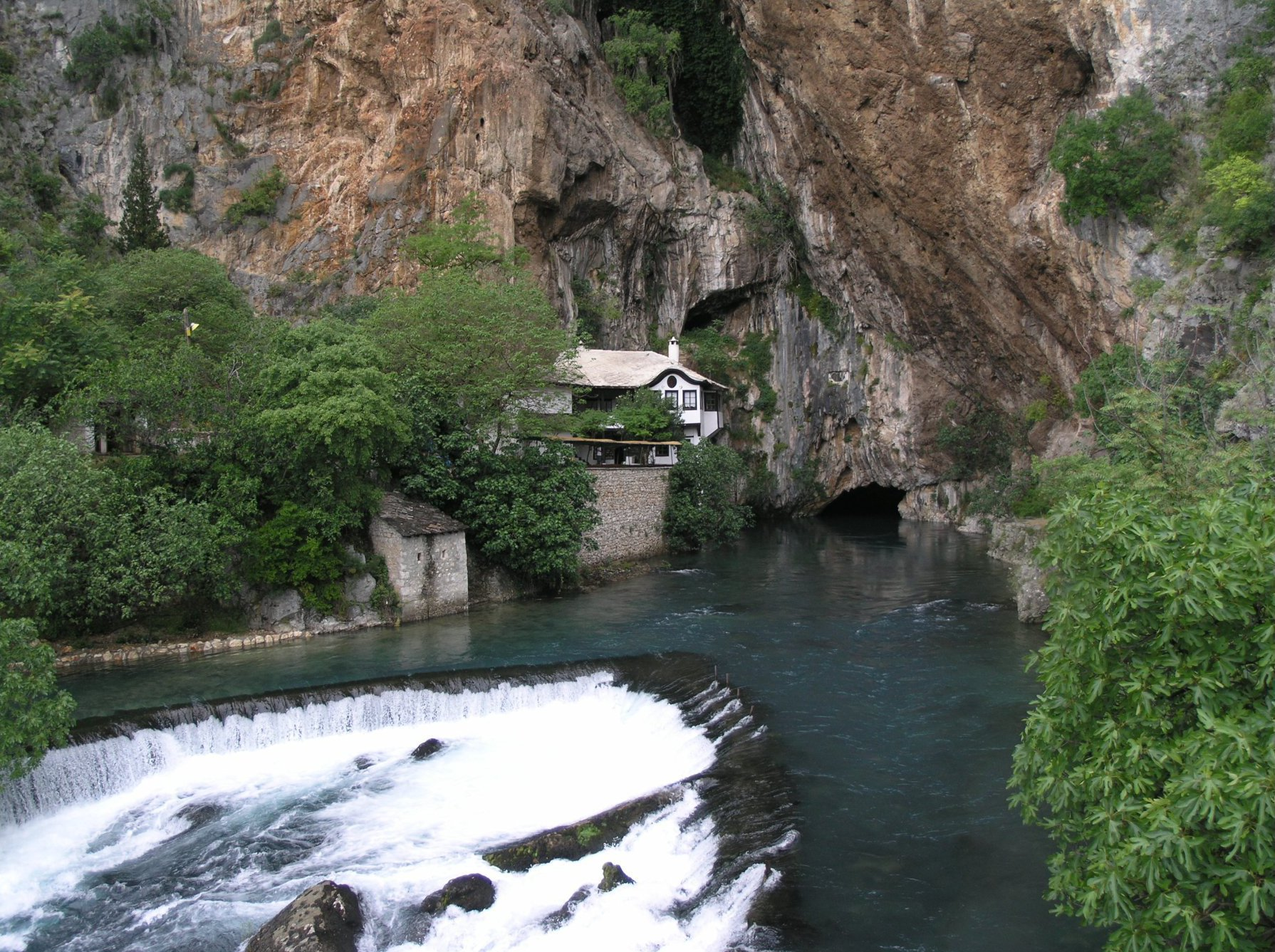 Buna river, near the town of Blagaj, Bosnia and Herzegovina, resurging as one of the biggest karstsprings in Europe.